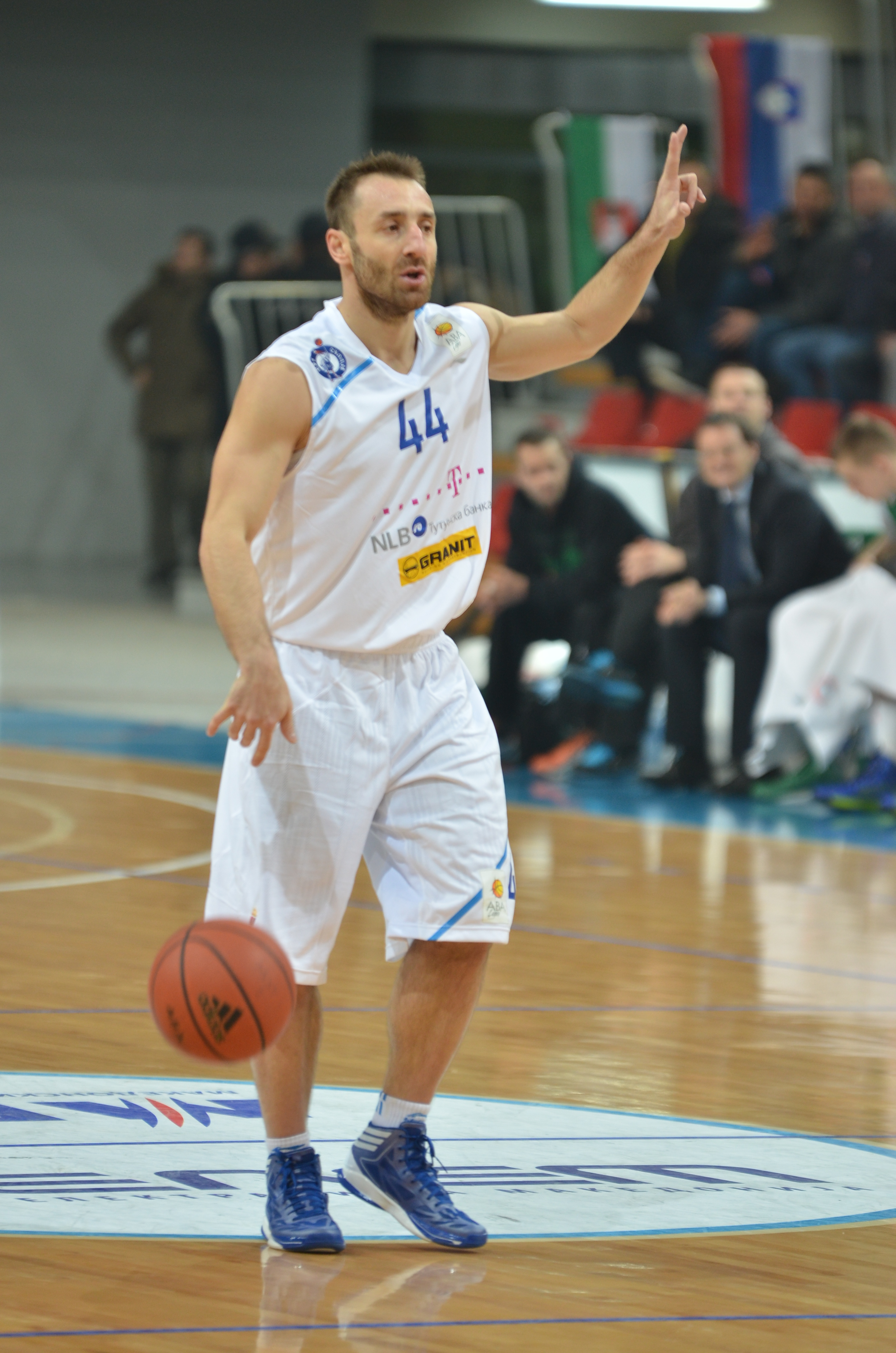 тимбабо